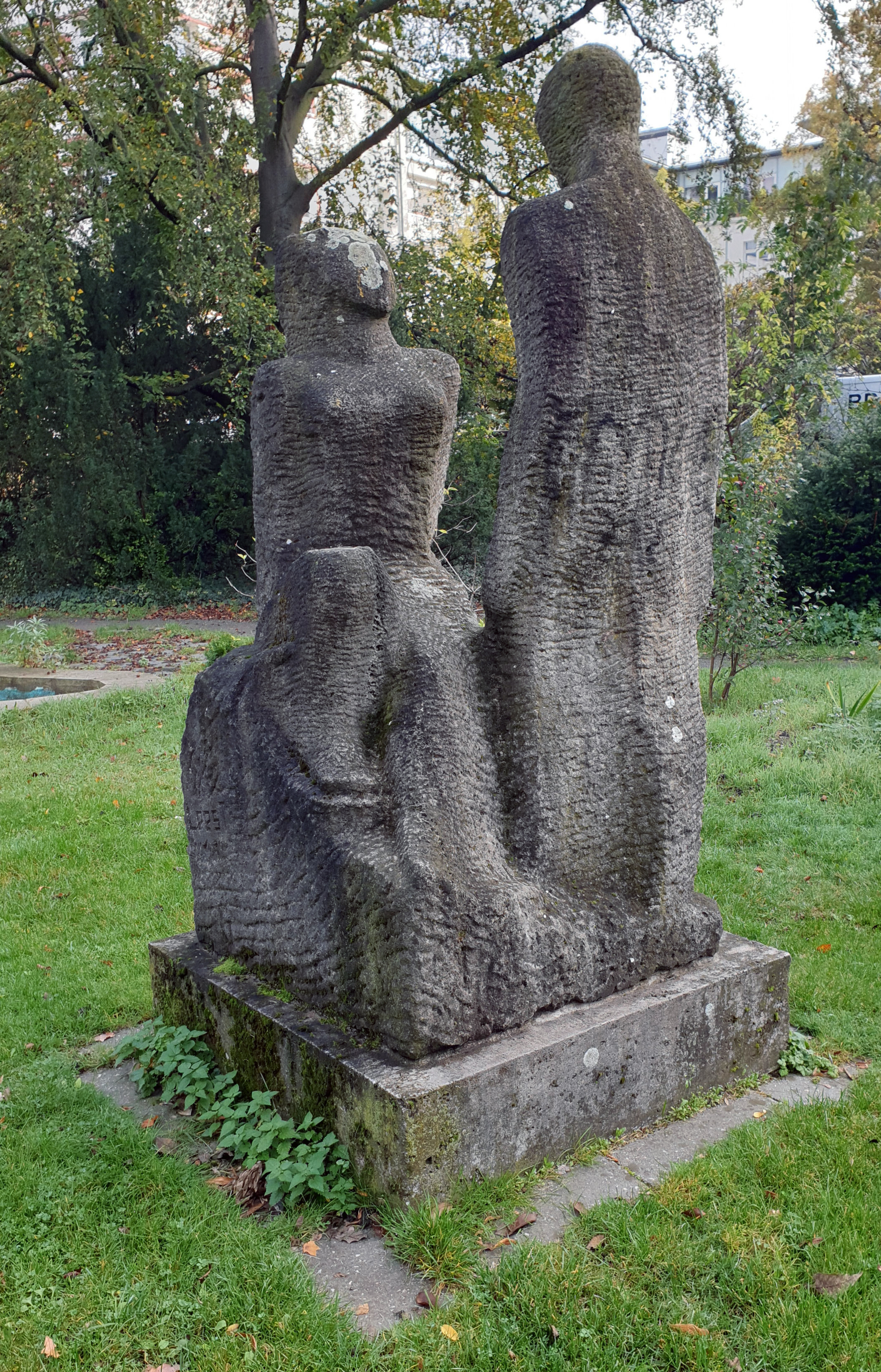 Sculpture, "Begegnung" by Hildegard Leest, 1959, Stadtpark Steglitz, Berlin-Steglitz, Germany